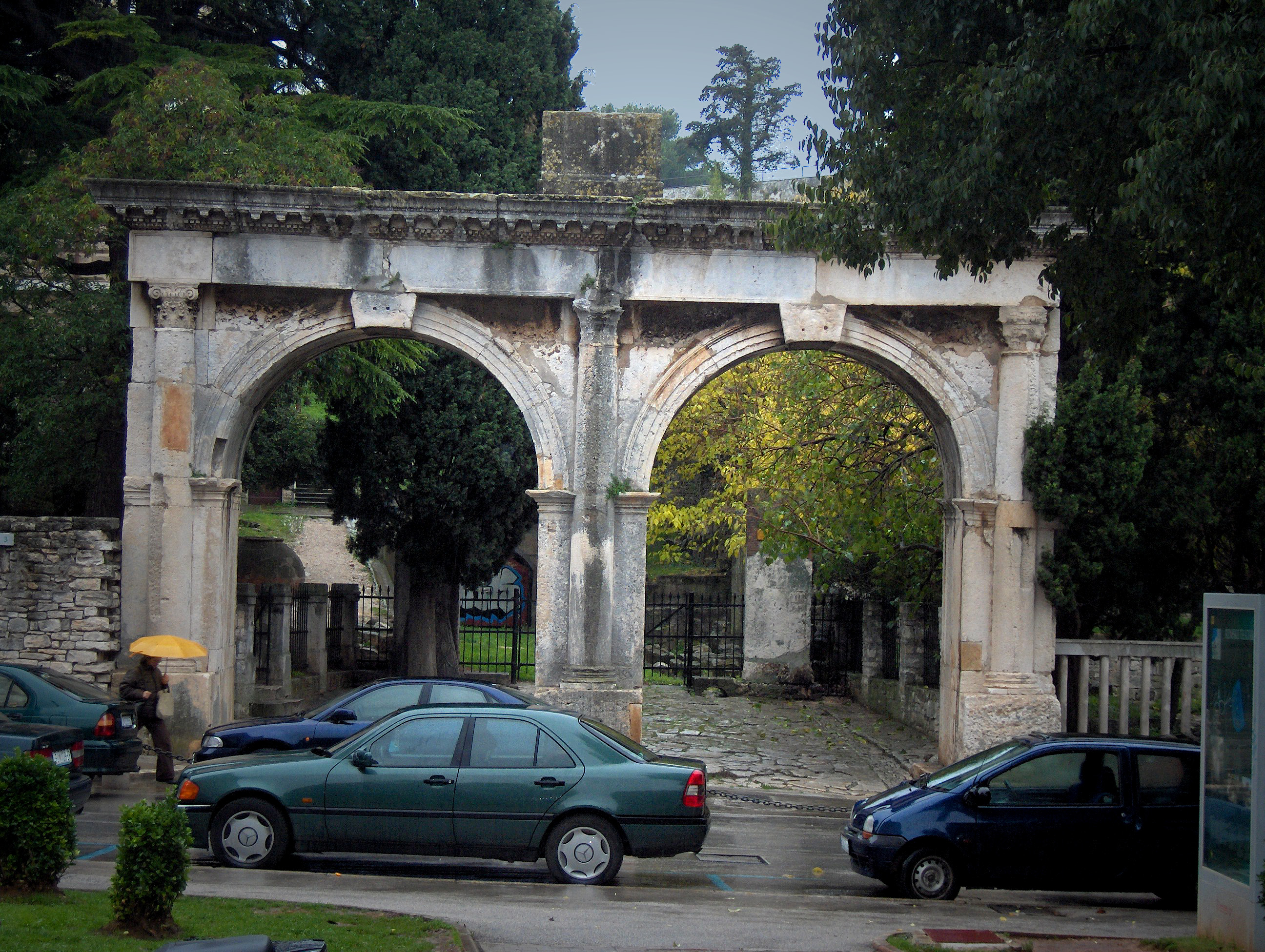 The Twin Gates, Pula, Croatia